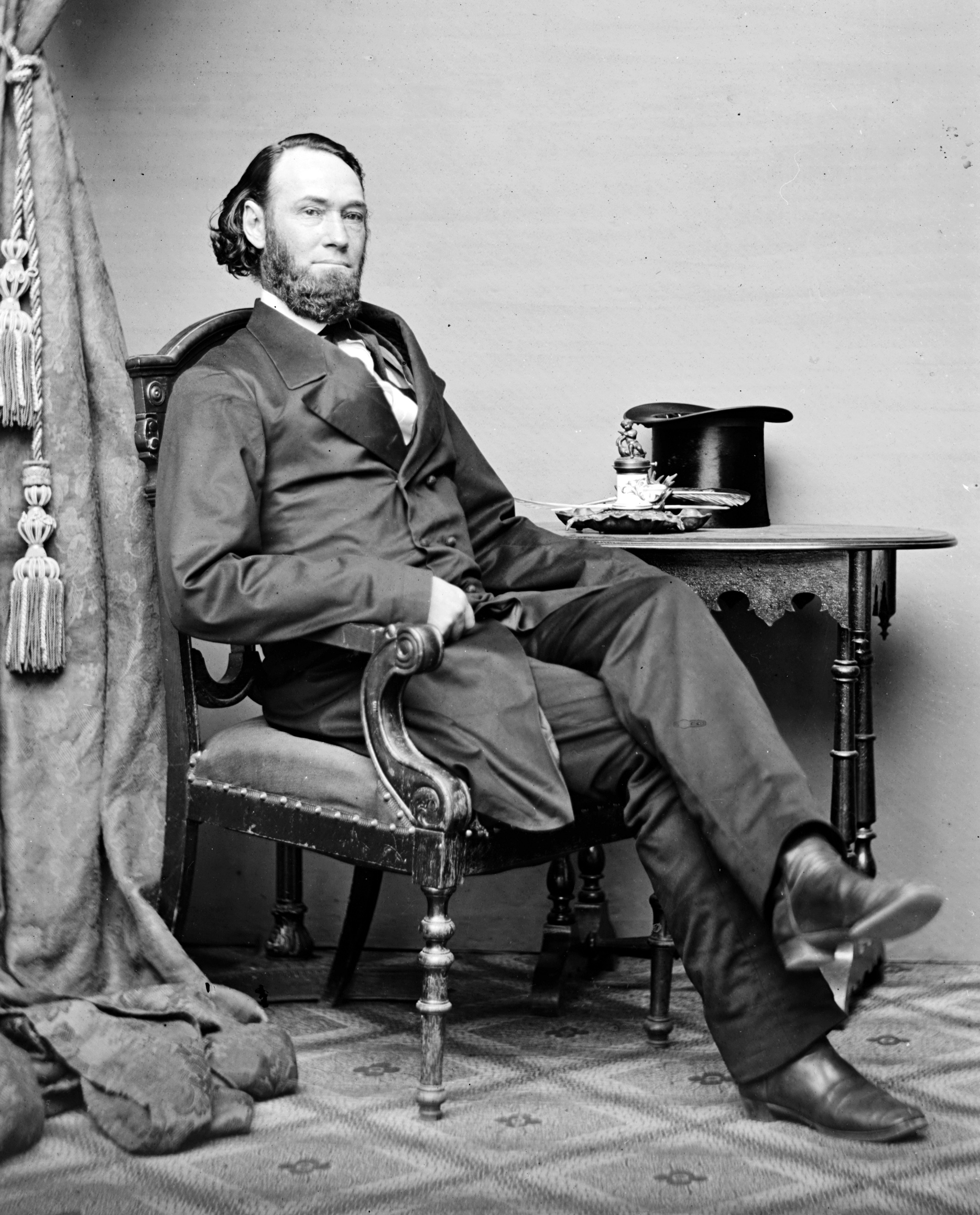 Daniel E. Somes, US Congressman from Maine